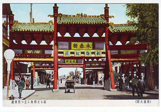 Sipailou, Datong. This photo belongs to the postcard serie named "Mengjiang Datong" published during Japanese-occupy era.